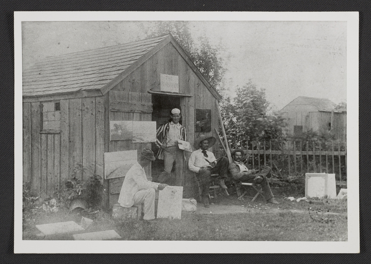 Students at Shinnecock Hills Summer School of Art in Southampton, N.Y., ca. 1895 / unidentified photographer. William Merritt Chase papers, circa 1890-1964. Archives of American Art, Smithsonian Institution.